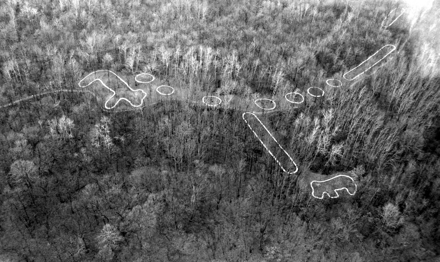 Effigy Mounds National Monument, Aerial View of Great Bear Mound Group. 43°5′38″N 91°10′54″W / 43.09389°N 91.18167°W